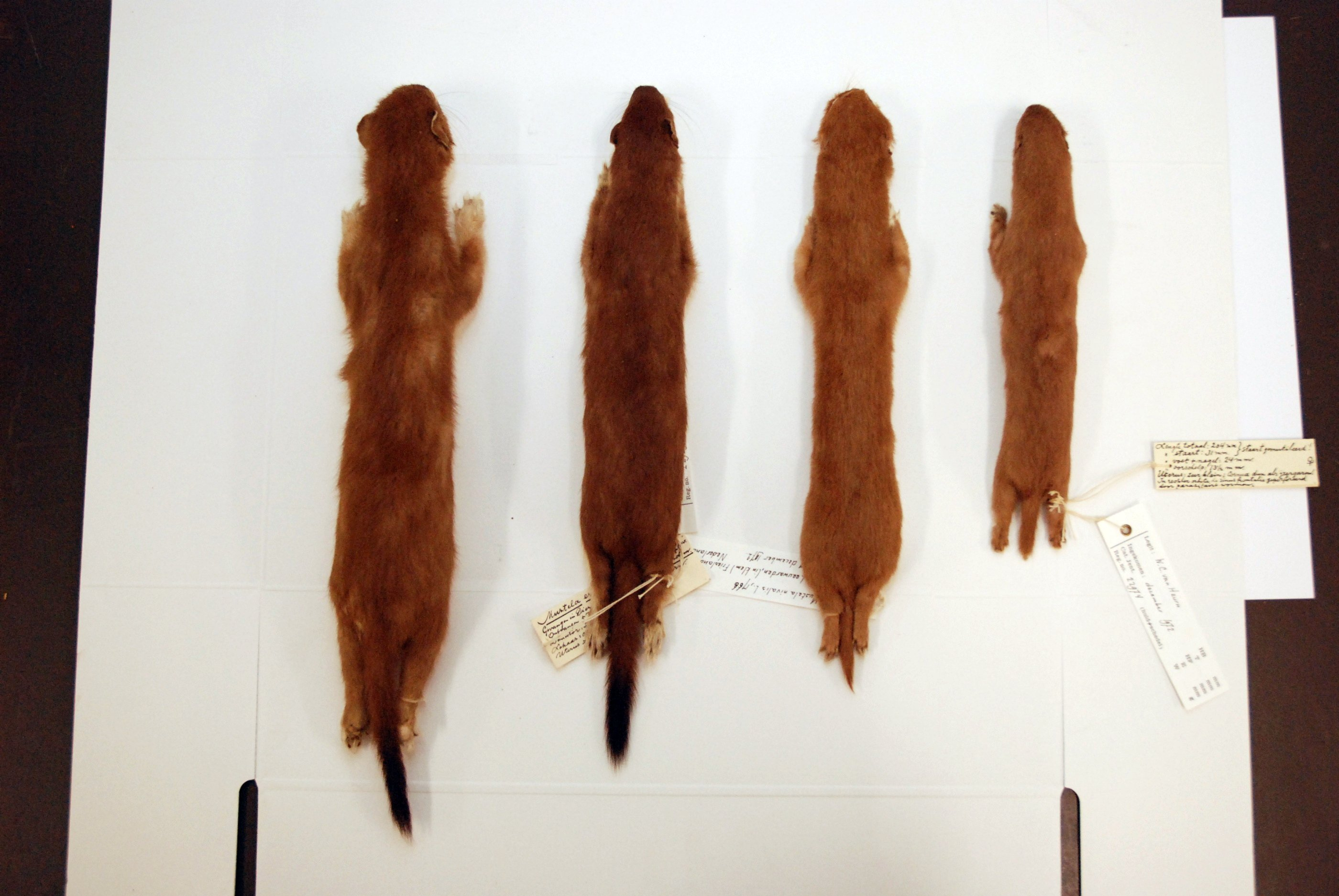 Two of right: mustela erminea Two of left: mustela nivalis vulgaris